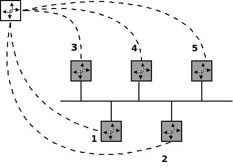 Nodes connected to the pseudo-node.